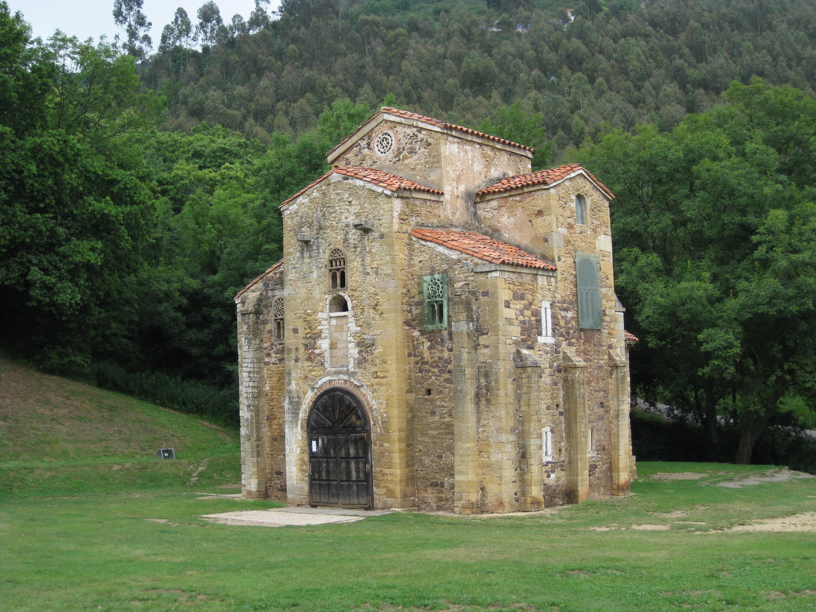 Church of San Miguel de Lillo, Oviedo (Spain).